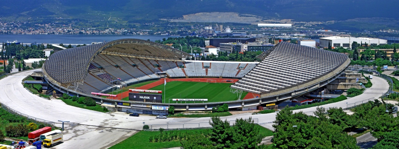 Poljud panorama